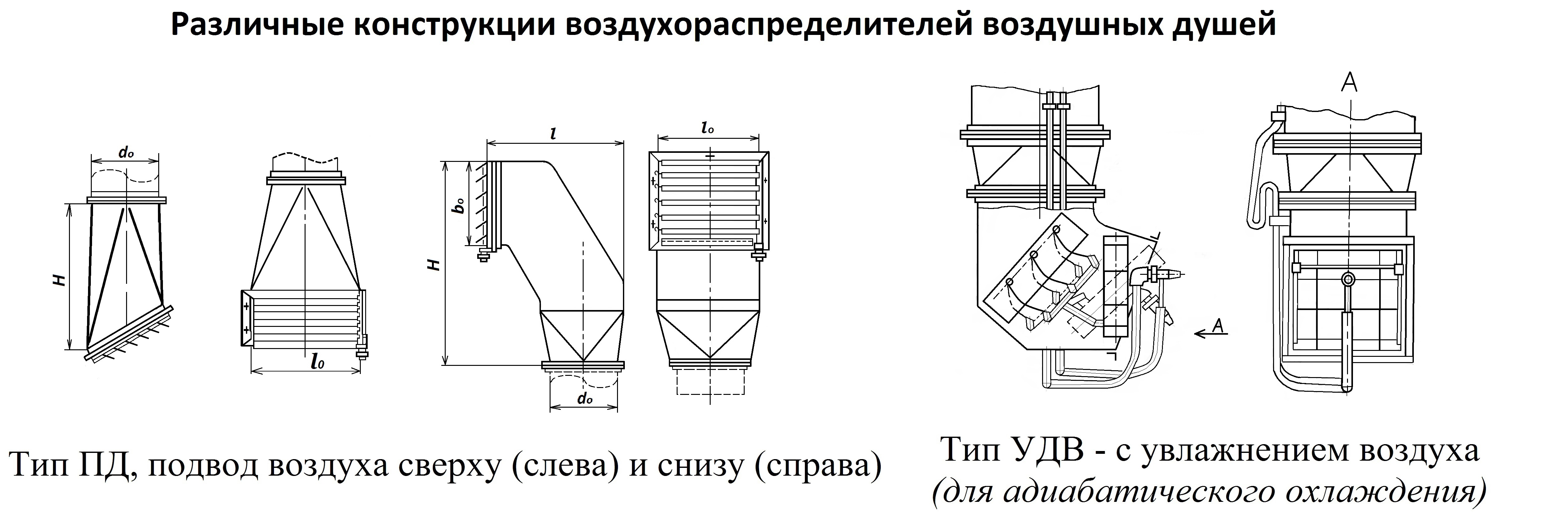 На рисунке показаны некоторые из видов патрубков воздушных душей, используемых для защиты от перегрева при работе в нагревающем микроклимате.